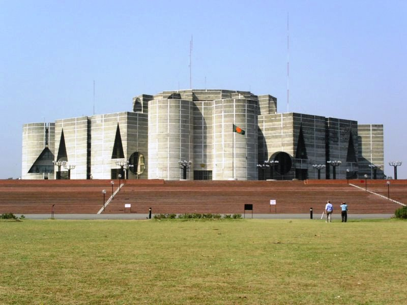 Jatiyo Sangshad Bhaban, or the National Parliament Building of Bangladesh, located at Dhaka, Bangladesh. It was designed by Architect Louis Kahn.